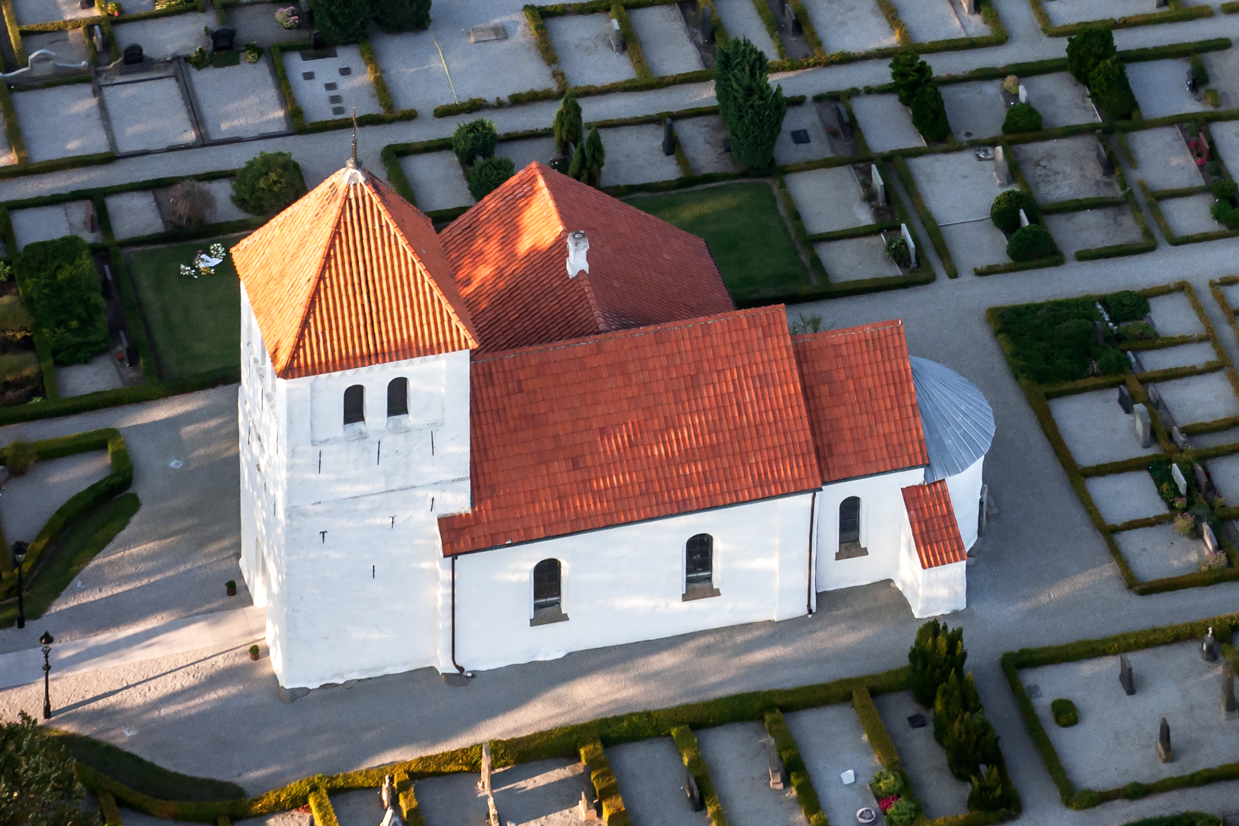 Hofterup church